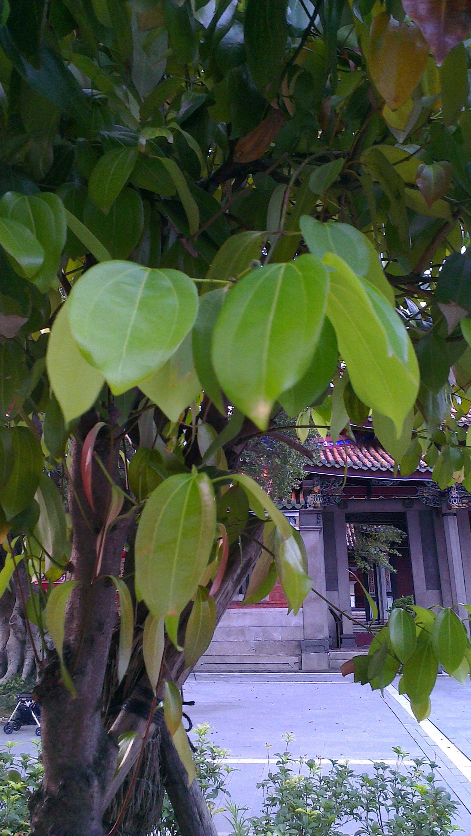 Cinnamomum cassia Leaf